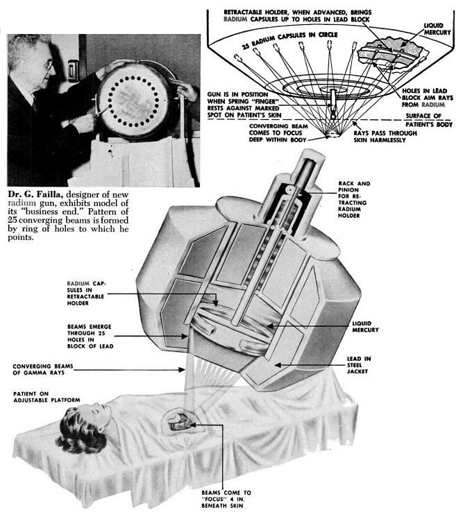 An early external beam radiotherapy (teletherapy) machine from 1951 using radium to treat cancer. It consisted of a radiation "gun" head made of lead containing 25 capsules of radium. The beam of gamma rays from each capsule passes through a hole in the front face. The 25 radiation beams converge on a single point 9 inches in front of the face of the machine. The purpose of the multiple beams was to reduce the dose of radiation to the patient's healthy tissue around the tumor. In use the machine was positioned above the patient, with the focal point of the beams at the tumor inside the patient's body. Thus the tumor received radiation from all 25 beams, while the intervening tissue only received radiation from one beam. When the treatment was over a remote control system would retract the radium capsules into a container of the liquid metal mercury in the head, blocking the beams, Before nuclear reactors were invented in World War 2, virtually the only source of gamma rays for radiotherapy was radium, which was extremely rare and expensive. This machine used the largest amount of radium ever assembled for medical use; 50 grams, which cost 1 million dollars, equivalent to about $9 million in 2015 dollars. Within a few years nuclear reactors produced artificial radioisotopes for radiotherapy, and this machine was replaced by teletherapy machines using the much cheaper gamma ray source cobalt-60. Alterations to image: cropped out captions and text graphics around image, and added drawing from another article showing beam paths.